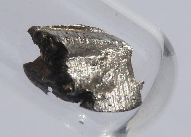 Ultrapure cerium under argon, 1.5 grams. Original size in cm: 1 x 1